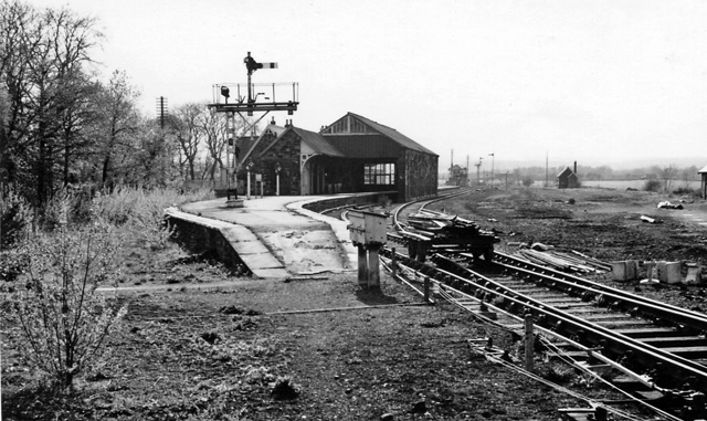 Barnard Castle Station (remains), Near to Barnard Castle, County Durham, Great Britain. View westward of recently closed quite important junction station, where lines from Darlington (closed 30/11/64, Goods 5/4/65) and Bishop Auckland (closed 13/6/62) converged, continuing over Stainmore to Kirkby Stephen and Penrith (closed 22/1/62), also Tebay (until 1/12/52), and from Barnard Castle to Middleton-in-Teesdale (closed 30/11/64, Goods 5/4/65). Here, in May 1965, they are already dismantling everything.